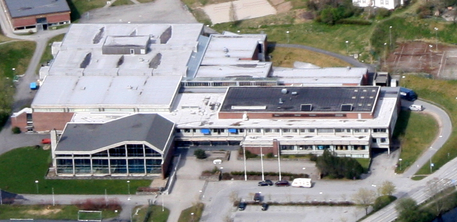 Førdehuset in Førde kommune, Sogn og Fjordane, Norway seen from Hafstadfjellet.